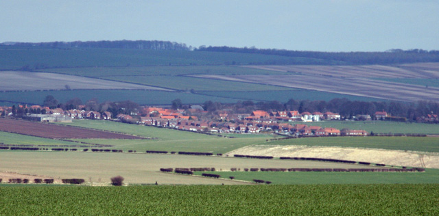 Village of Wetwang, East Riding of Yorkshire, England.From the path above Freshlands Cottages, approximately 2 km south south west.